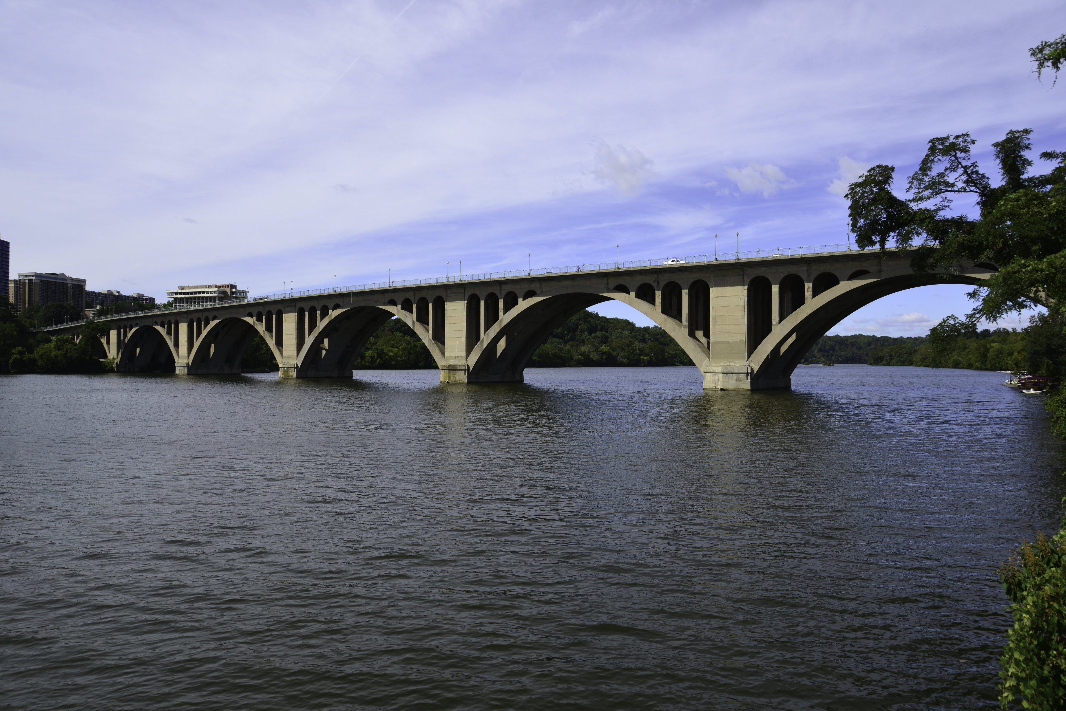 Francis Scott Key Bridge